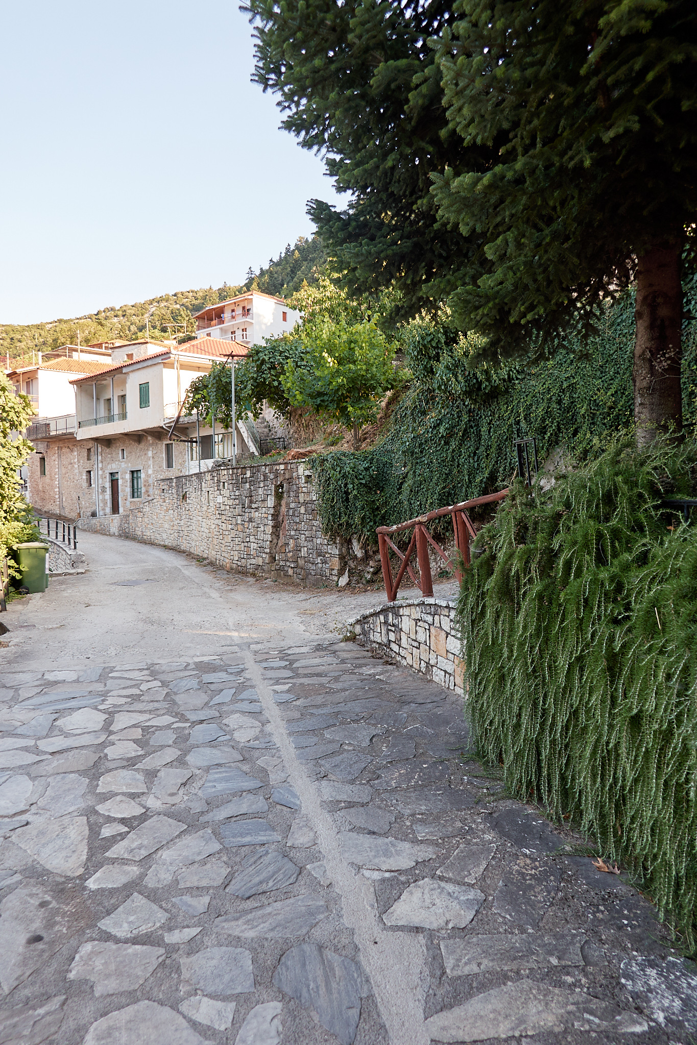 Street in Sitena village in Arcadia region of Peloponnese, Greece.